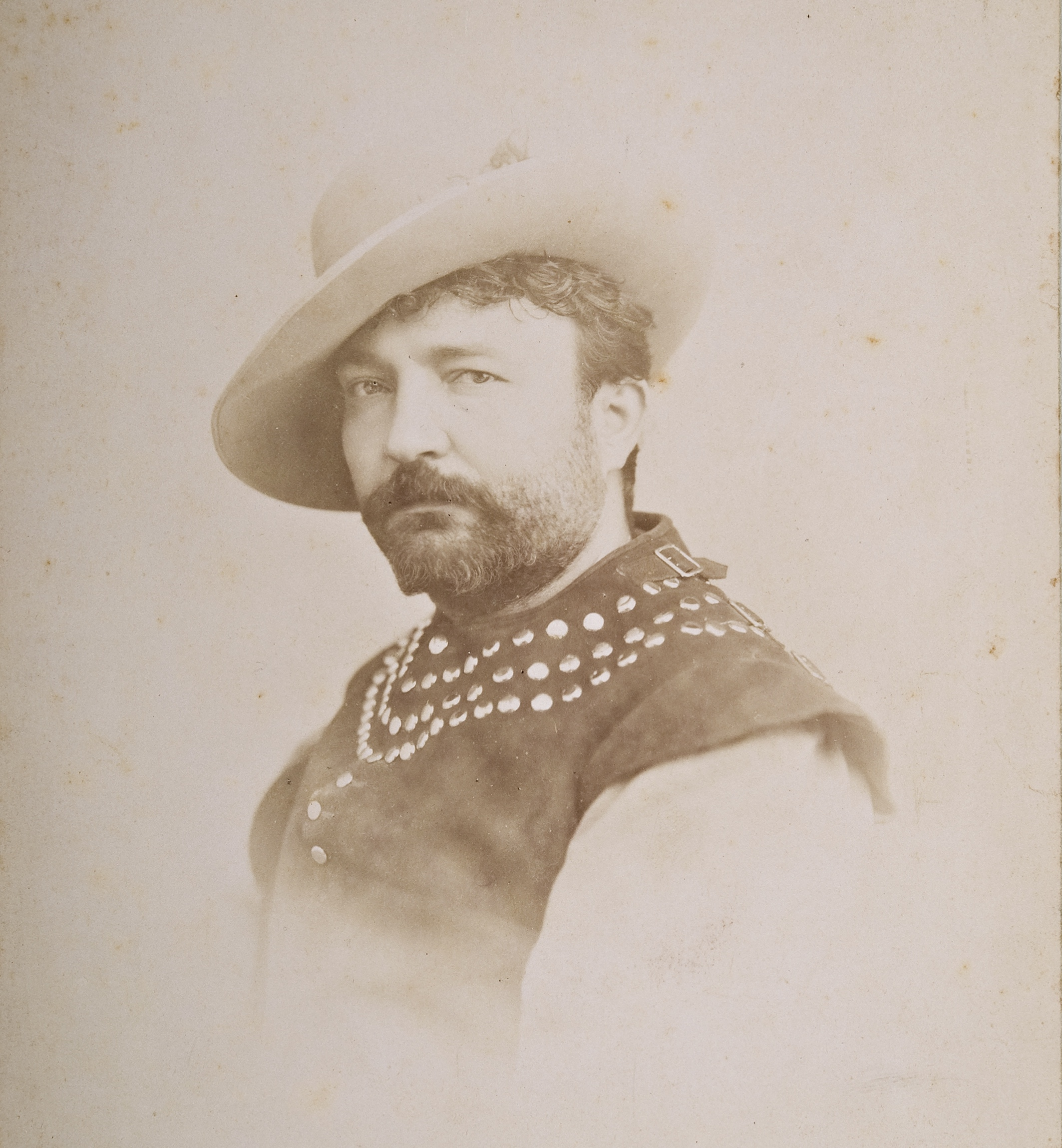 Angelo Masini as Duke of Mantua in Giuseppe Verdi's Rigoletto